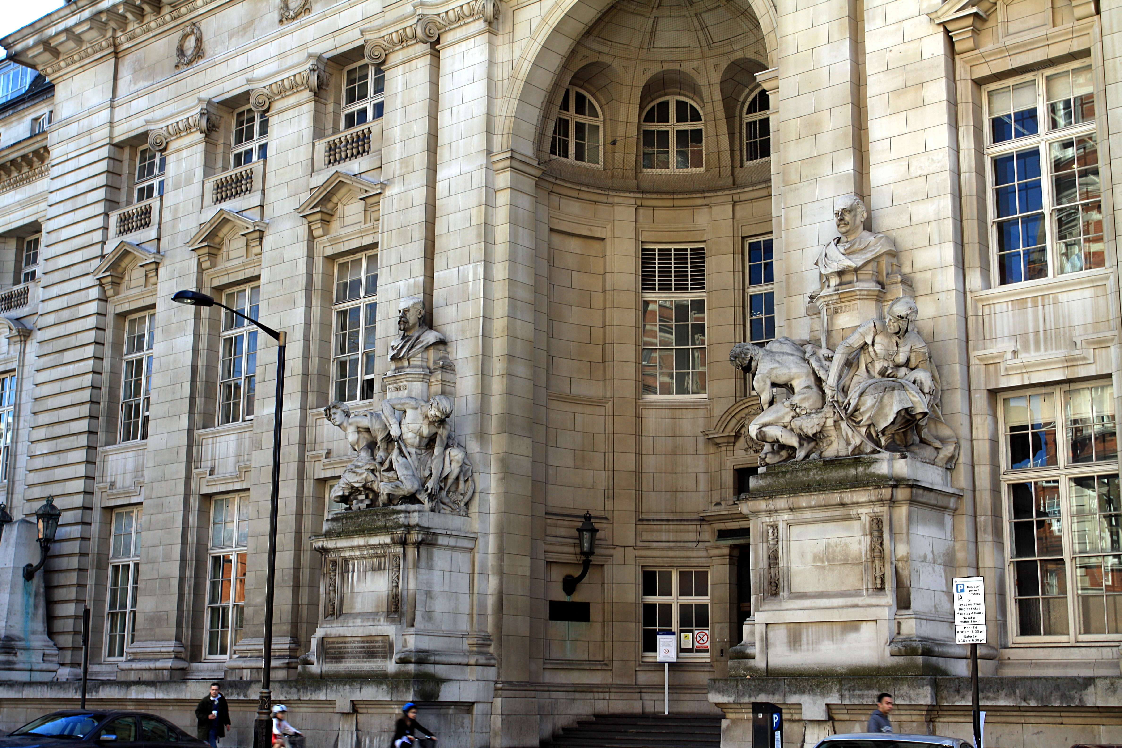 Ashton Webb building, part of Imperial College London, the City of Westminster, London, Great Britain. The making of this file was supported by Wikimedia UK.